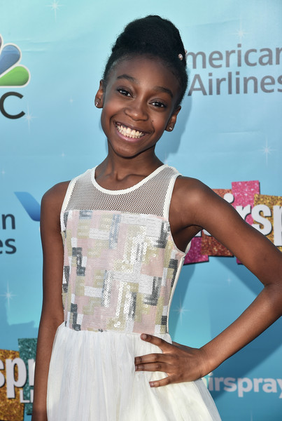 Shahadi Wright Joseph at Hairspray Live! red carpet